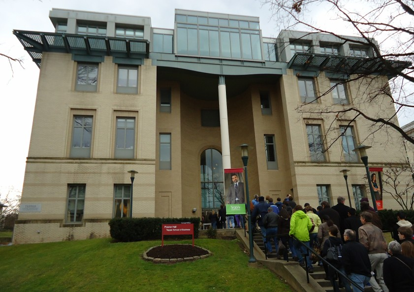 Building at Carnegie-Mellon University in Pittsburgh, Pennsylvania. A tour group climbs steps to the Tepper School of Business.